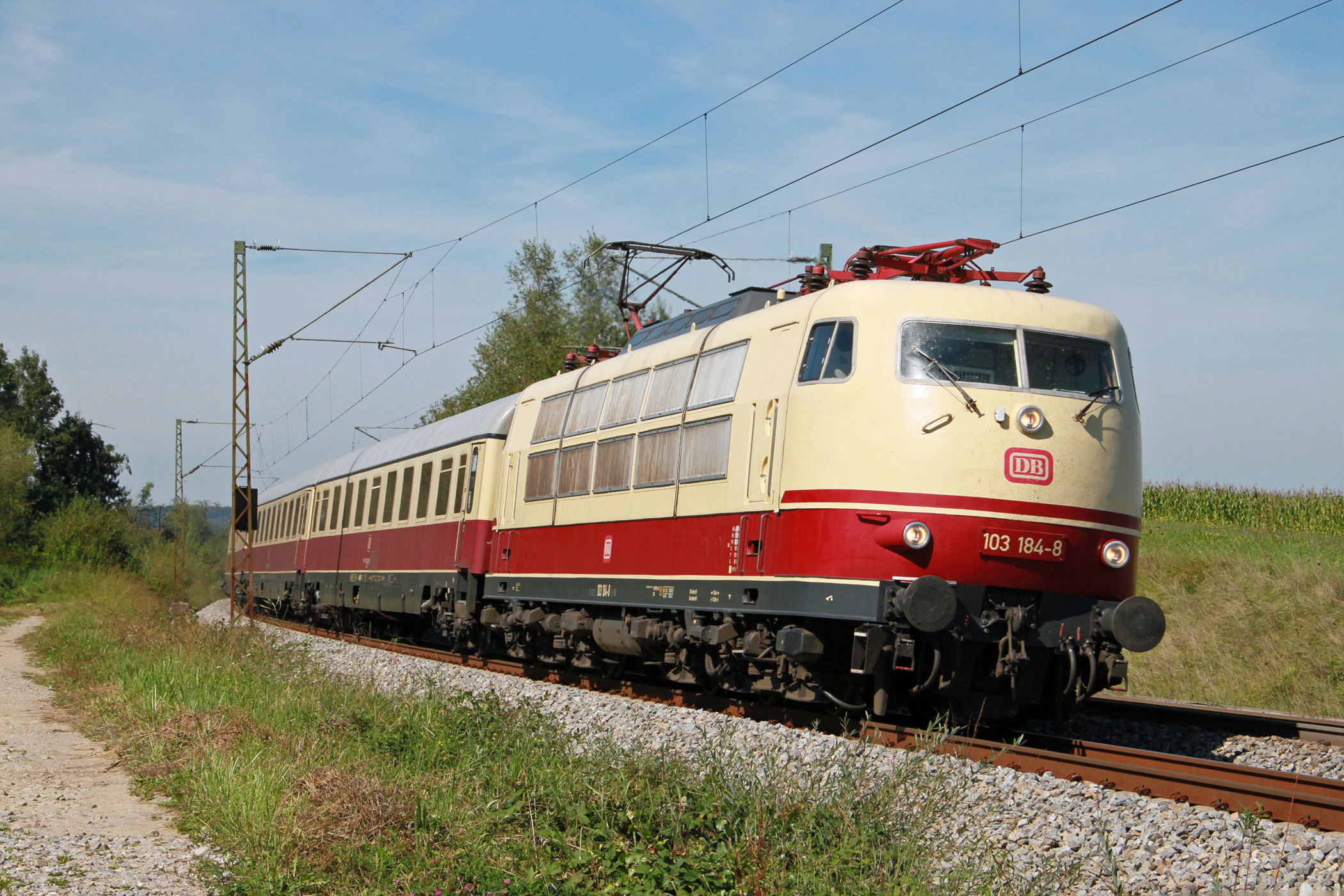 103 184 near Ostermünchen, Bavaria